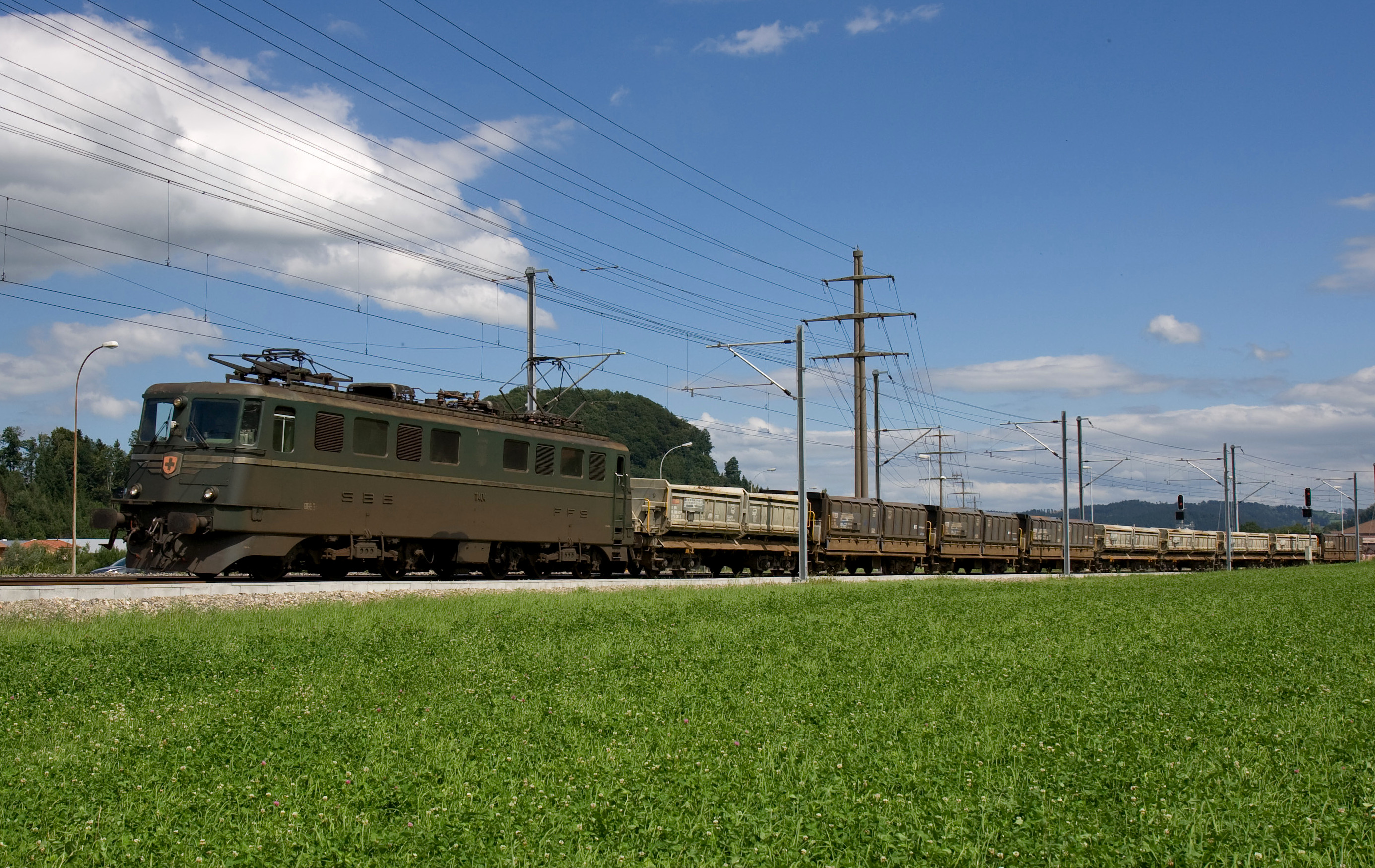 SBB-CFF-FFS Ae 6/6 with an empty gravel train near Gettnau